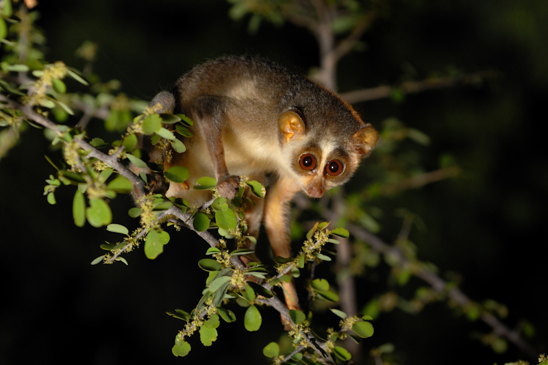 Gray slender loris (Loris lydekkerianus) photographed at Dindigal in Tamil Nadu.